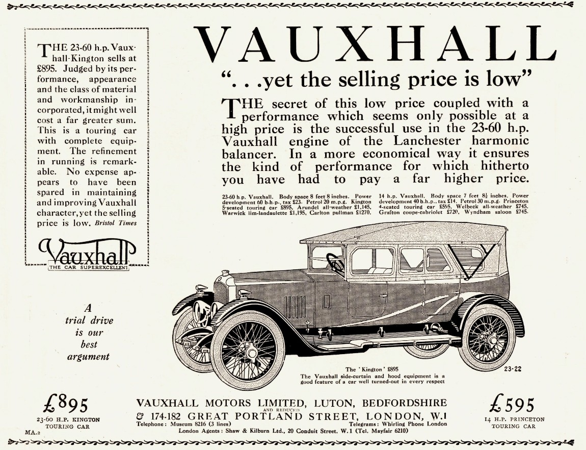 Vauxhall Kington 23-60 Touring Car ad Note the "fluted" hood and grille top, a Vauxhall tradition. How about those side curtains, though? They look very cumbersome to me.